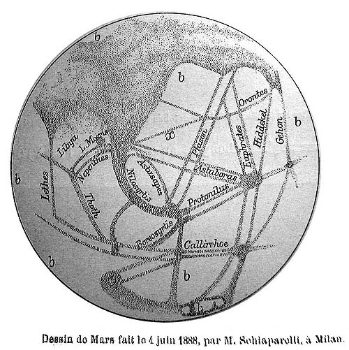 Giovanni Schiaparelli's map of Mars, made on 4 June 1888 at Milano.